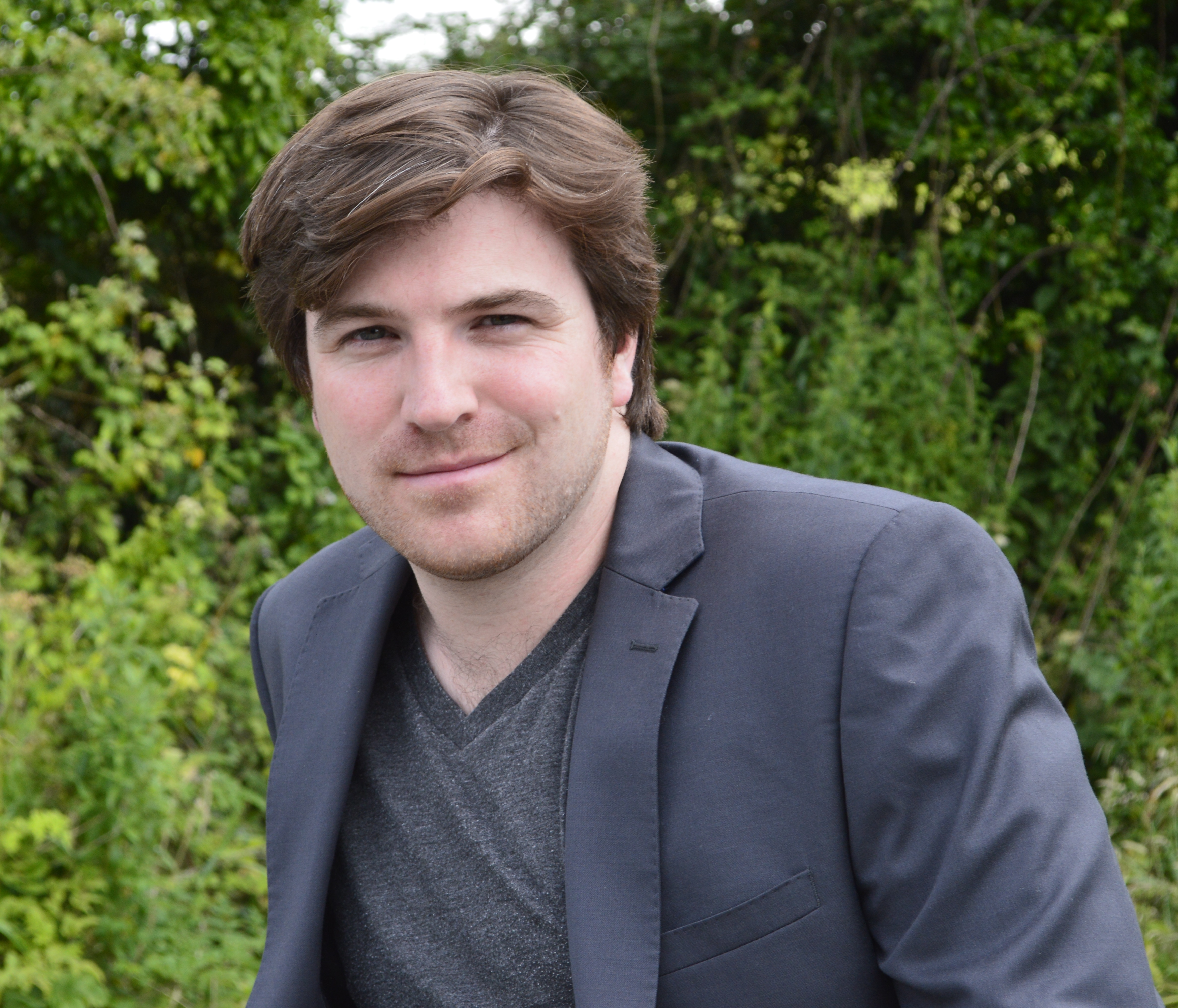 Portrait of physicist David Robert Grimes